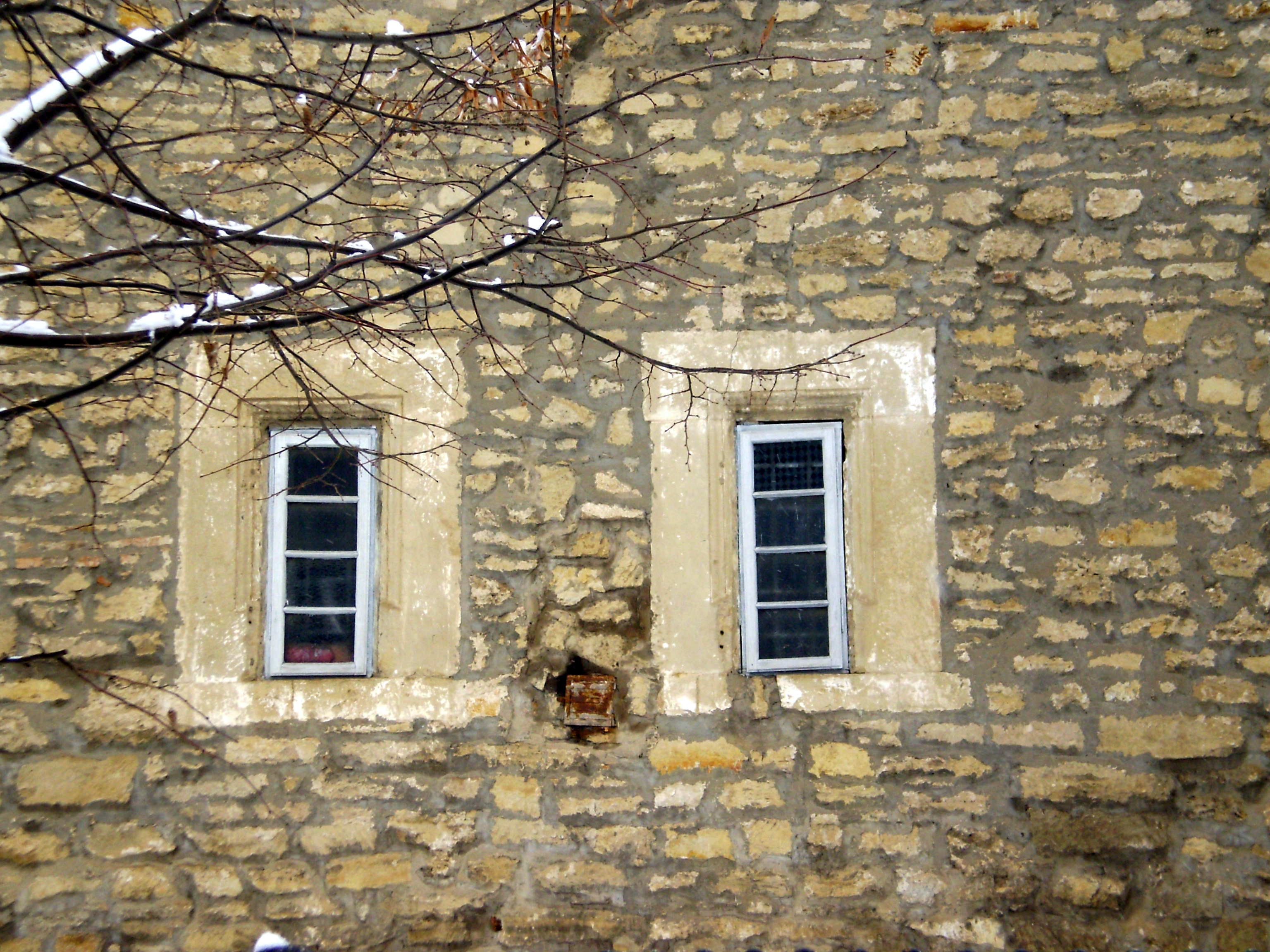 Iaşi , Zlataust Church , detail , Iaşi , Romania